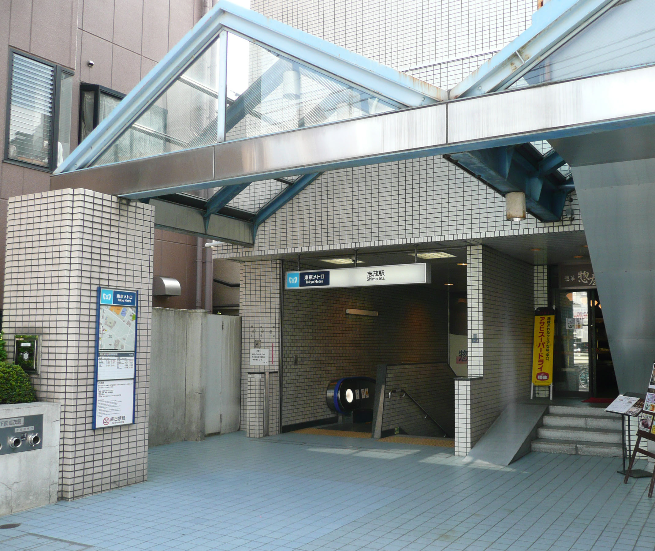 Exit 1 of Shimo Station on the Tokyo Metro Namboku Line in Tokyo